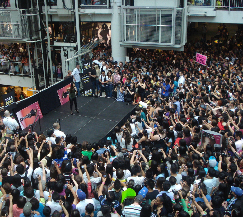 Over 6,000 fans of Filipino singing superstar Charice Pempengco filled the Toronto Eaton Center to catch a glimpse of her as she did a free performance in the mall on June 4th, 2010.